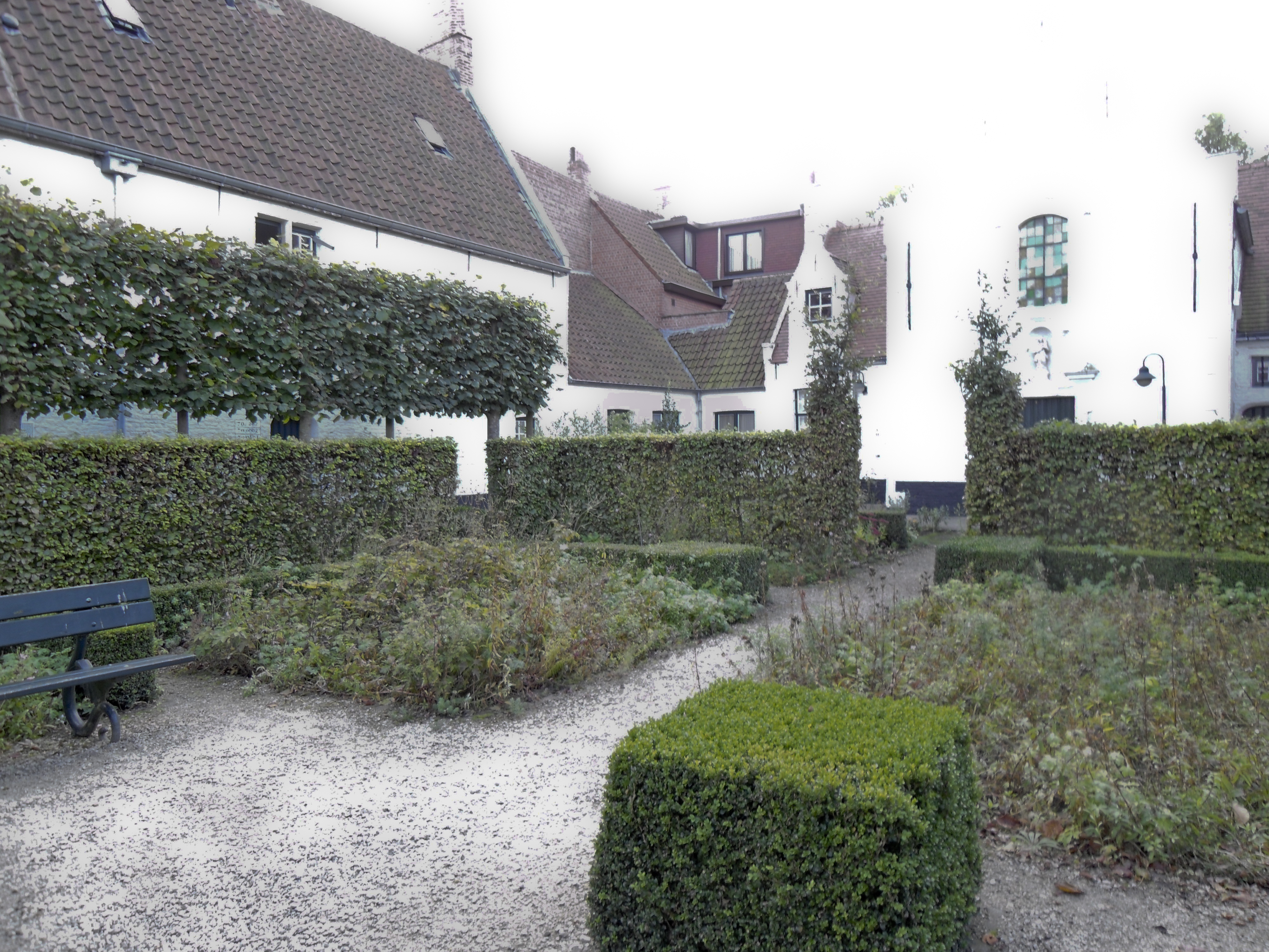 Fontaine